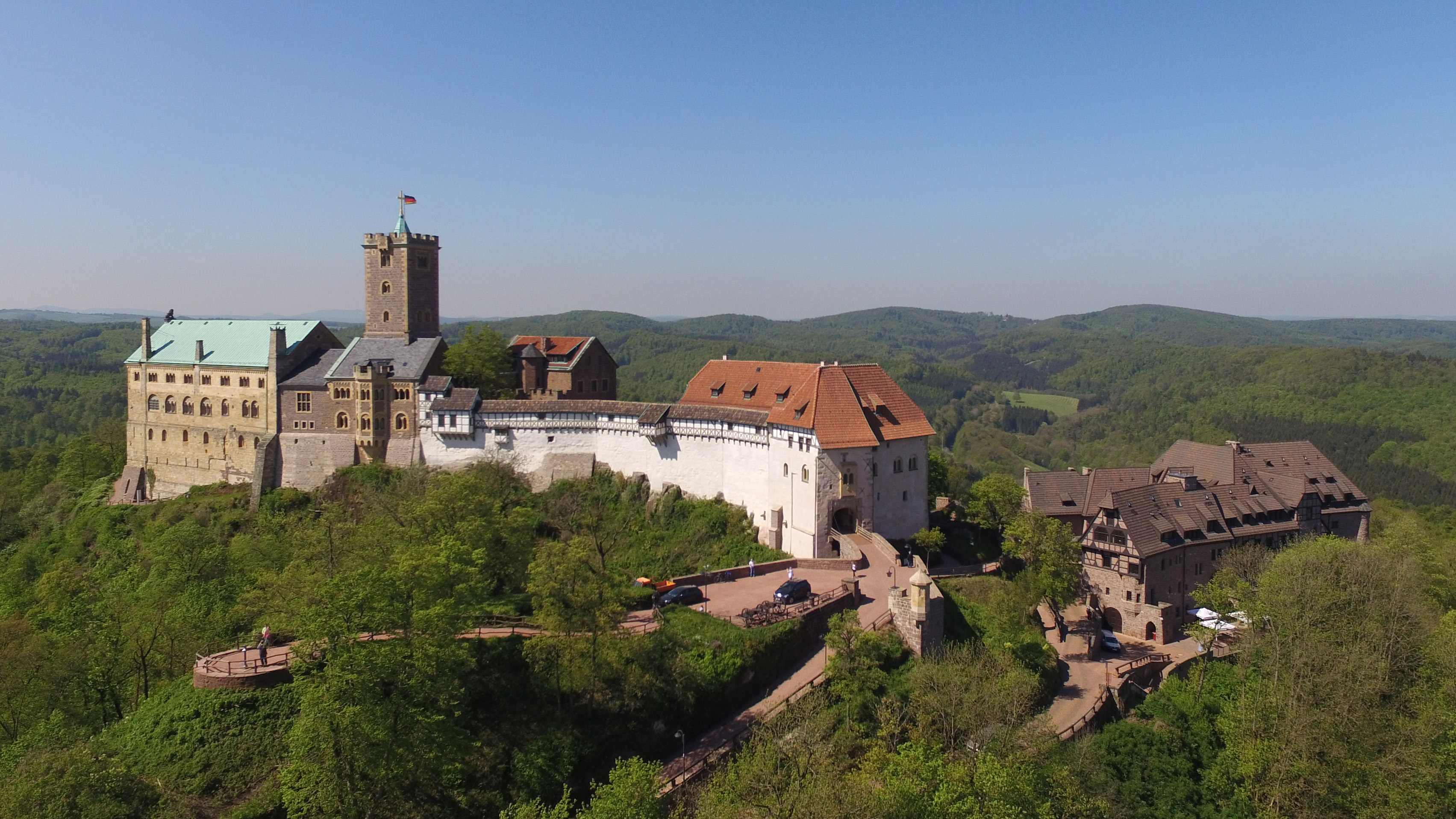 The Wartburg in Eisenach, Germany.